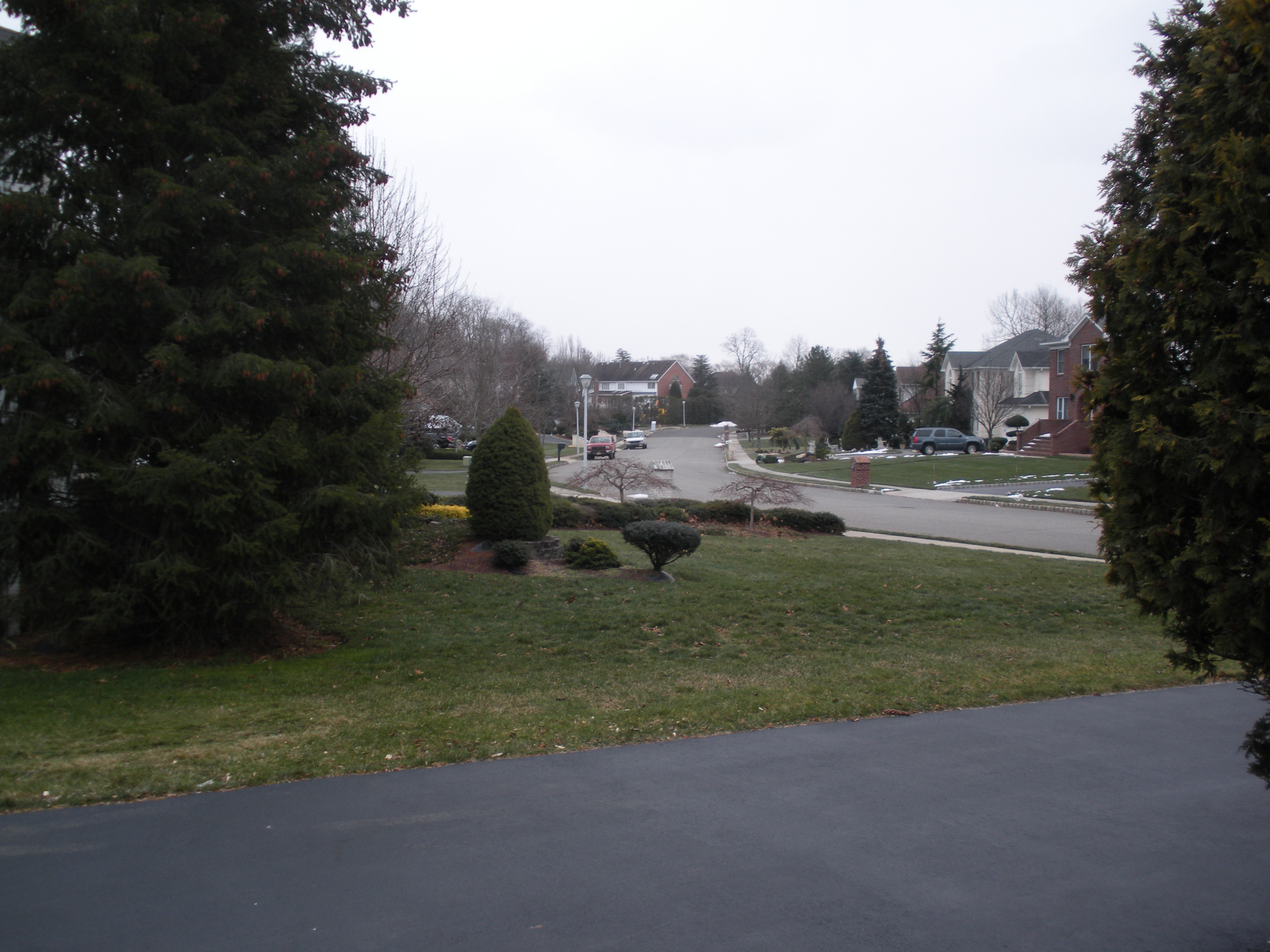 This is a residential area in Morganville, NJ. This image is also available at